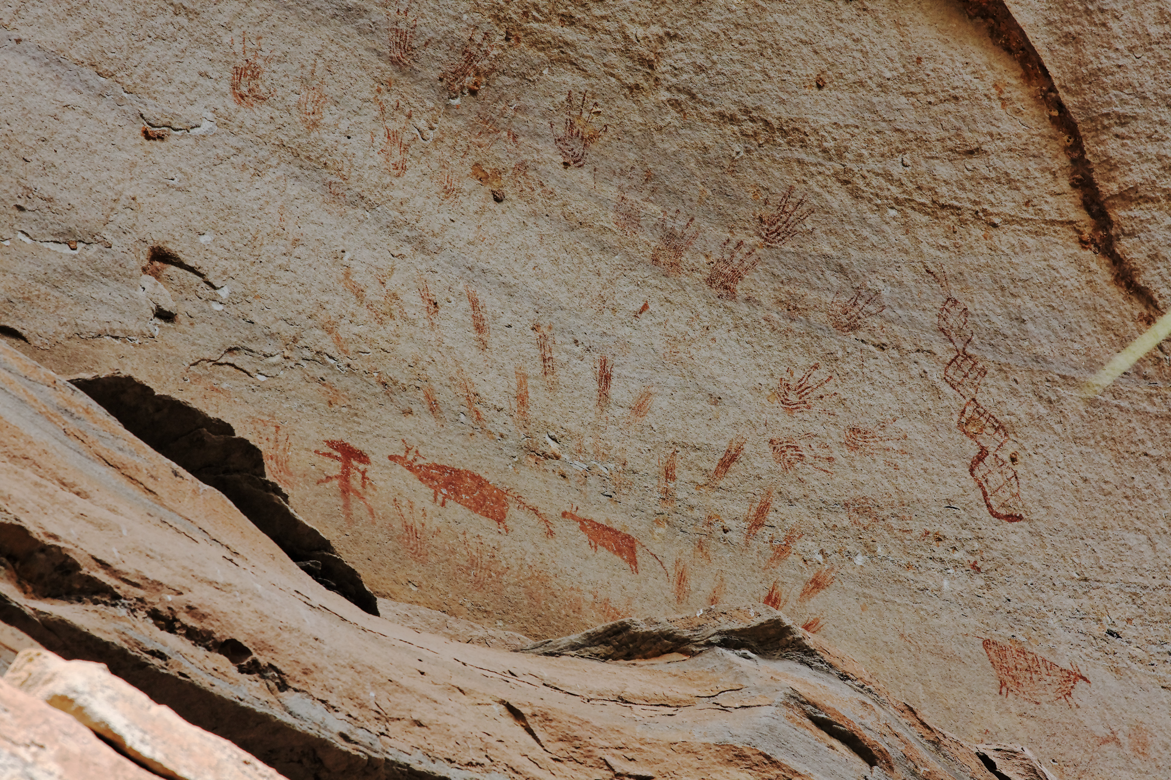 Pha Taem National Park, Ubon Ratchathani province, Thailand